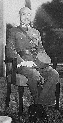 Photo of Chiang Kai-shek